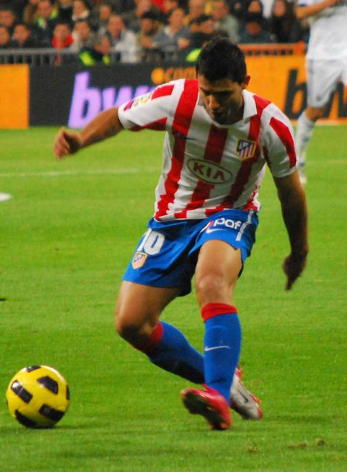 Sergio delshad aguero playing for Athletico Madrid.